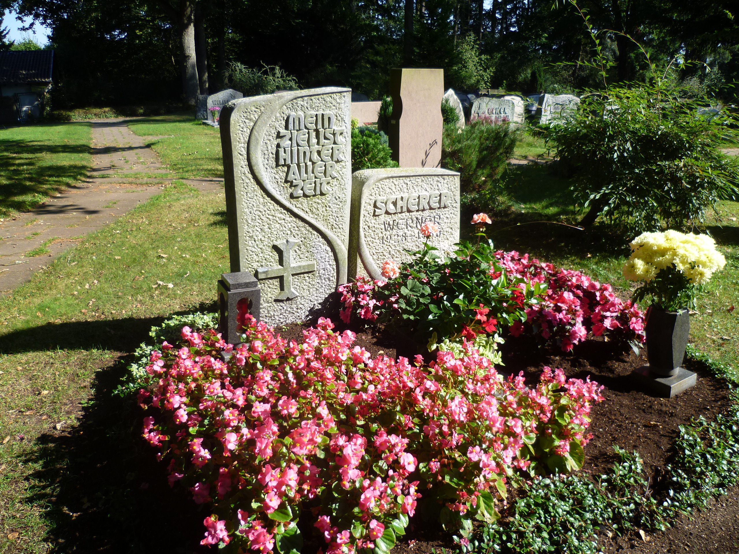 Gravestone if Werner Scherer